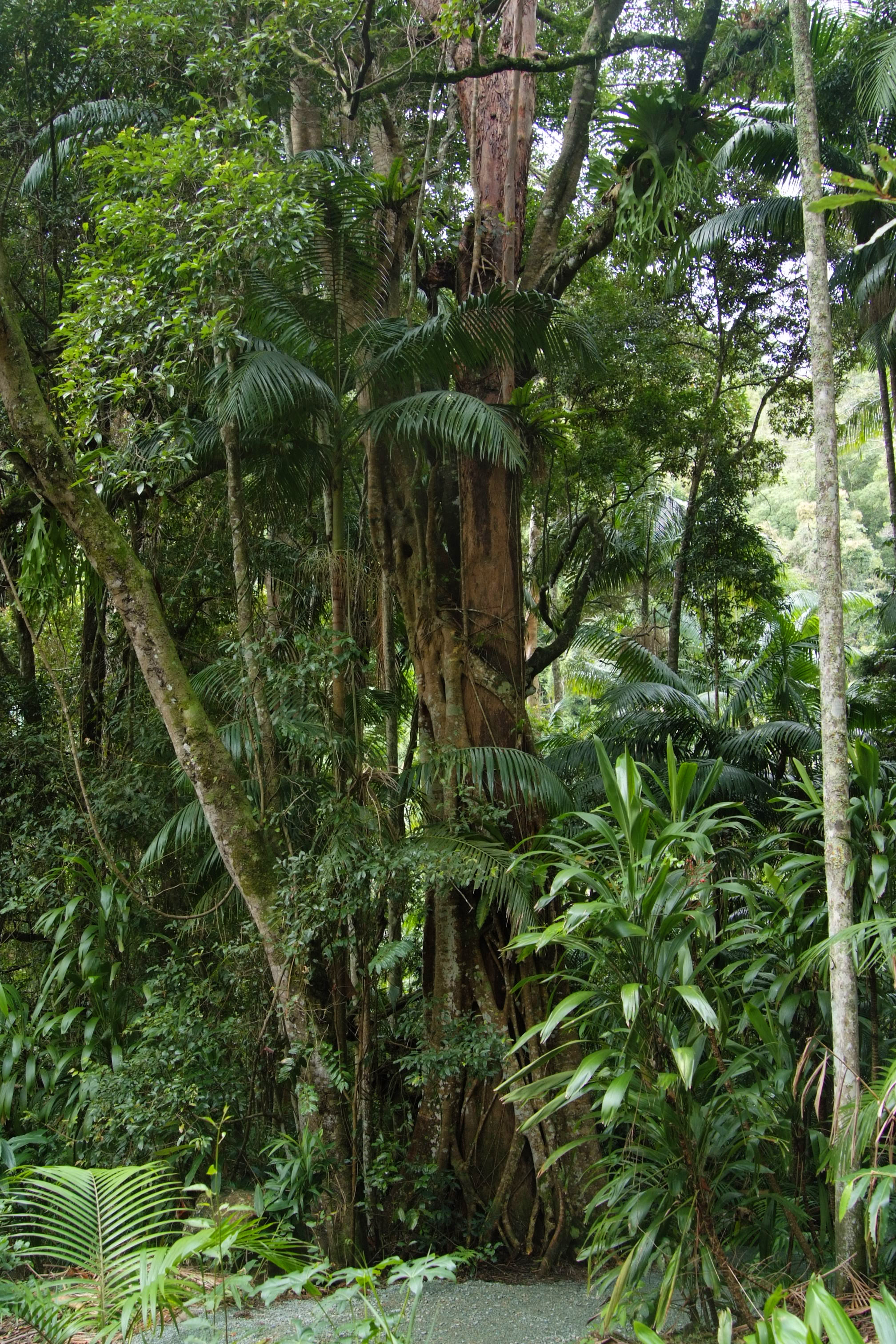 lush green subtropical rainforest on Tamborine Mountain